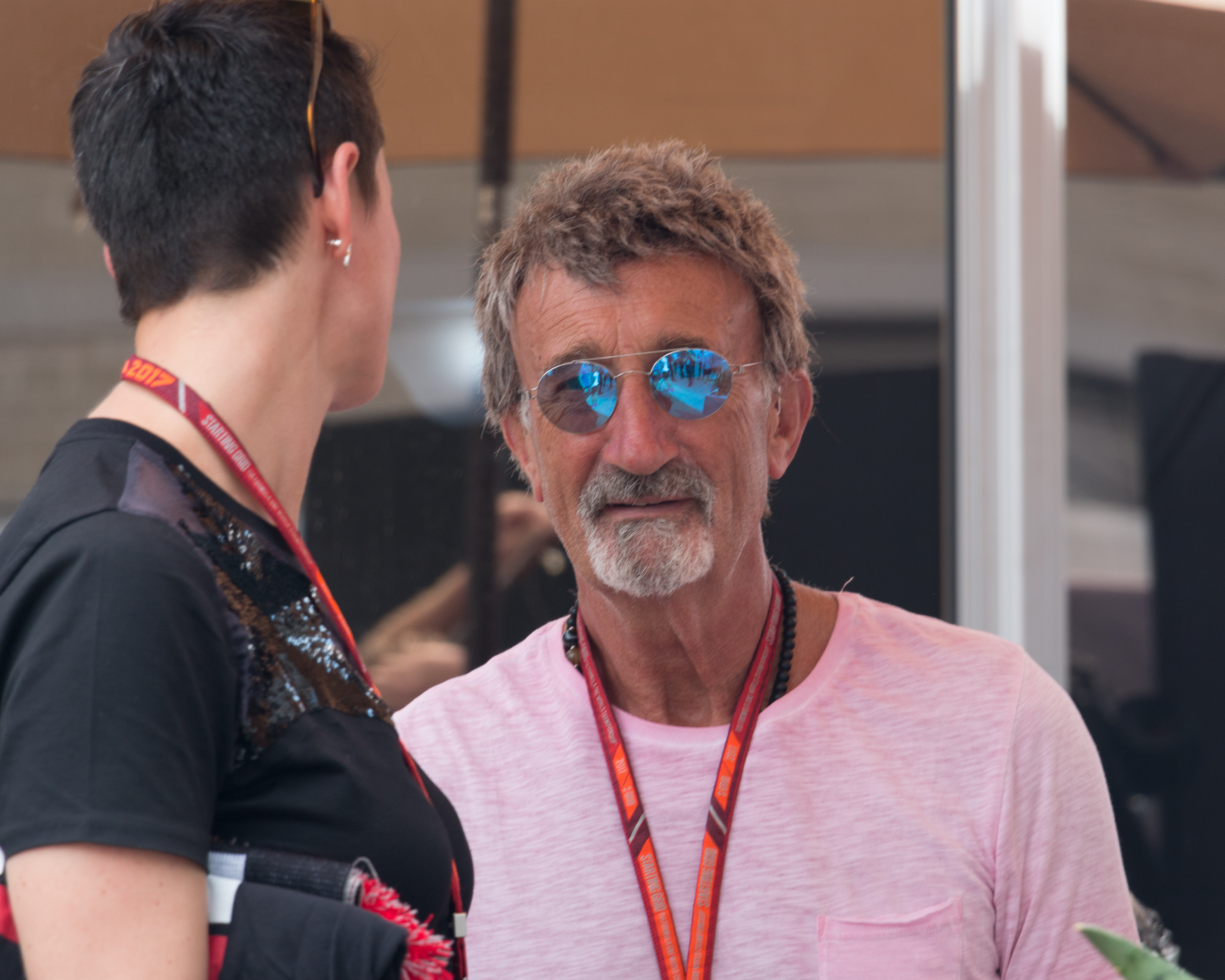 USGP Austin Oct 2017